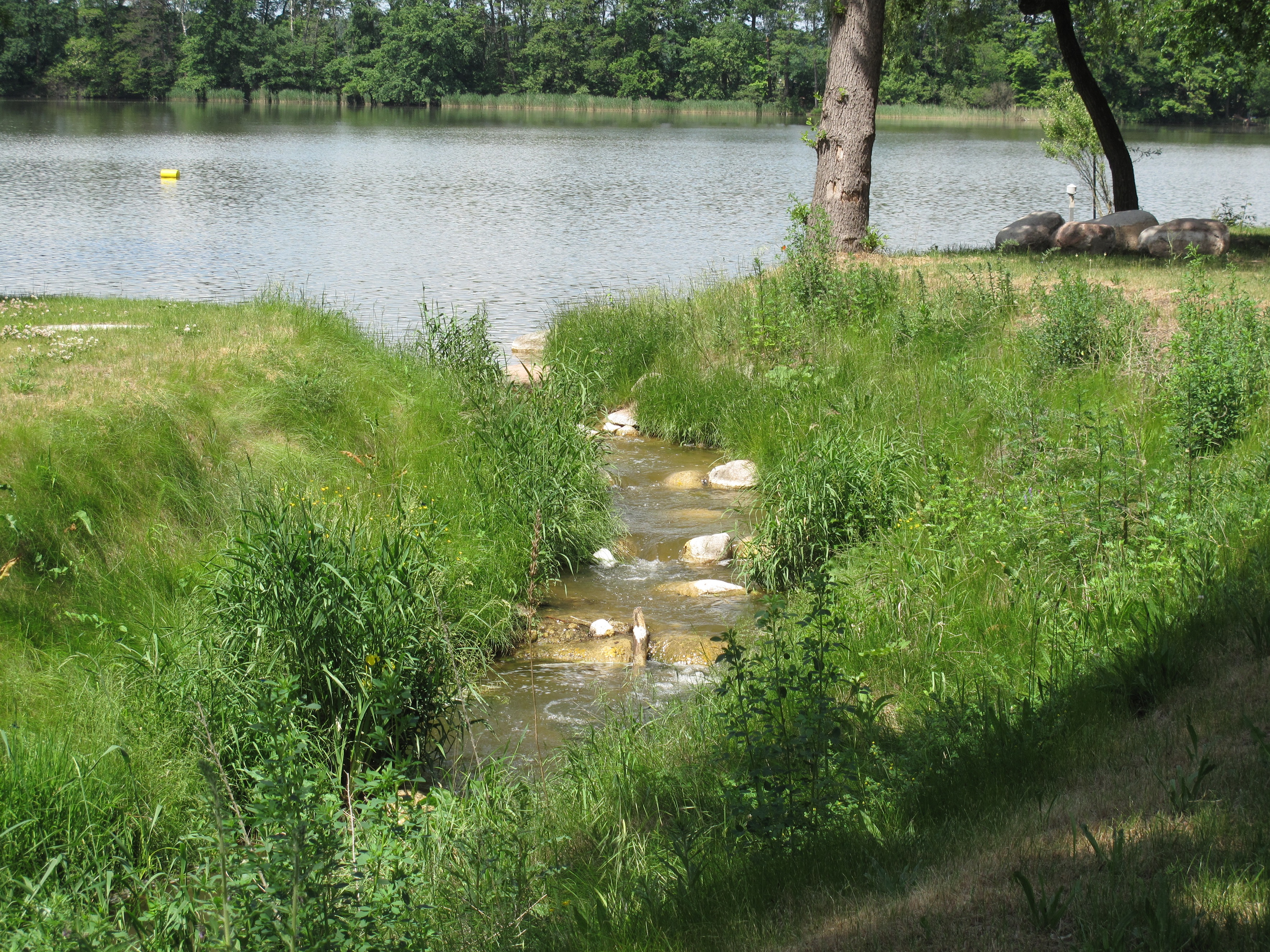 Runoff of the Liebenberger See with a fish ladder (built in 2010) at the Bundesleistungszentrum Kienbaum (German Federal Sports Center Kienbaum of the German Olympic Sports Confederation (DOSB). The Liebenberger See is a lake in the west of Kienbaum, a part of the municipality Grünheide, District Oder-Spree, Brandenburg, Germany. The lake covers 51 hectare.